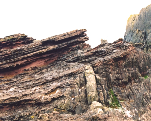 Hutton's Unconformity, Siccar Point This spot is a mecca for geologists from all over the world. Here, James Hutton found the evidence to prove that the Earth was much older than previously thought. He realised that the junction between the vertical and horizontal rocks represented a gap in time of many millions of years, during which the lower rocks had been deformed and eroded before the upper layers were deposited on top.